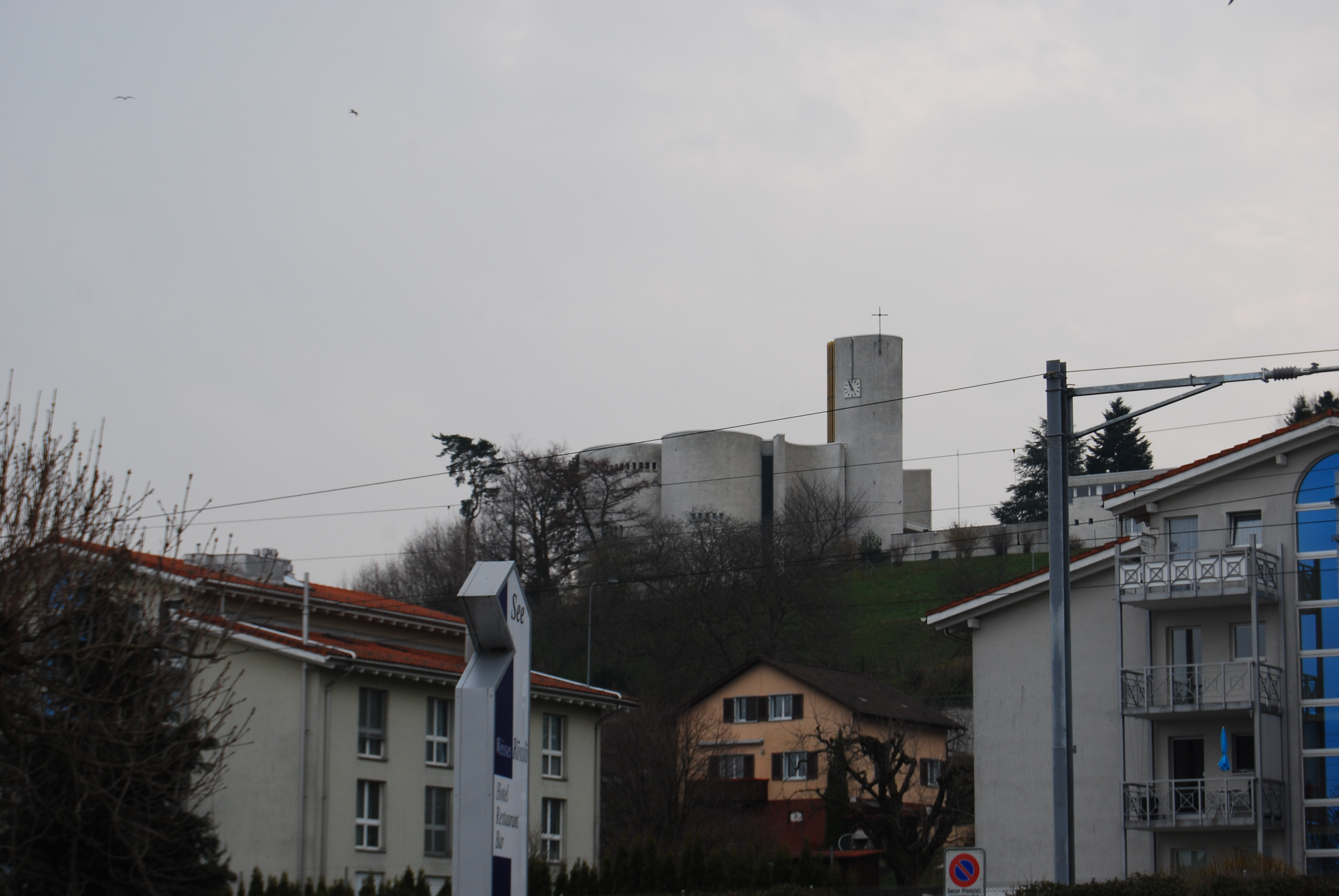 Catholic church of Staad, Thal, canton of St. Gallen, Switzerland